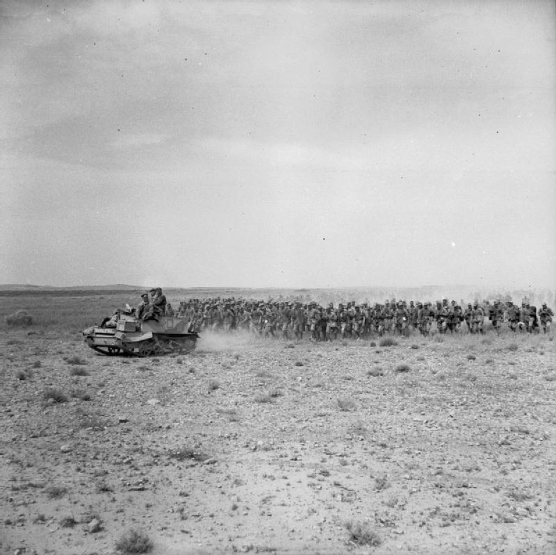 The British Army in Tunisia 1943 A Universal carrier escorts a large contingent of Italian prisoners, captured at El Hamma, 28 March 1943.